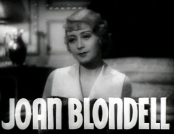 Cropped screenshot of Joan Blondell from Goodbye Again.